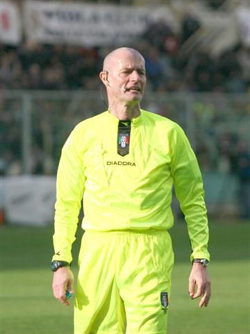 Italian referee Nicola Ayroldi